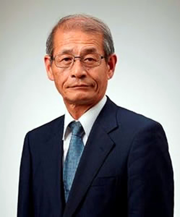 Akira Yoshino, Honorary Fellow of Asahi Kasei Corp., has been chosen for Nobel Prize in Chemistry on October, 2019.